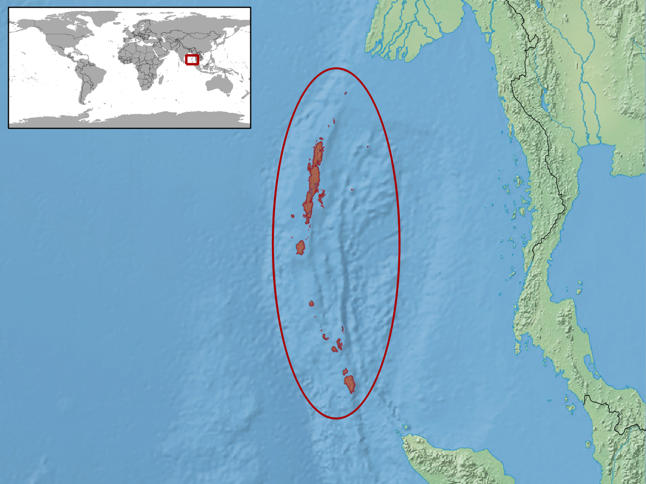 geographic distribution of Phelsuma andamanense (Native: India (Andaman Is., Nicobar Is.))